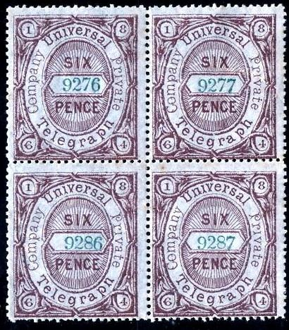 1864 six pence stamps of the Universal Private Telegraph Company with green control numbers showing the variety "n for h in the word telegraph" in the lower left hand stamp which occurs on 20% of stamps and always on control numbers ending with 1 or 6.